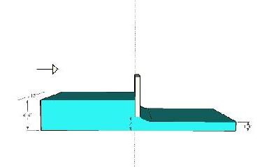 Gate opening at 2'